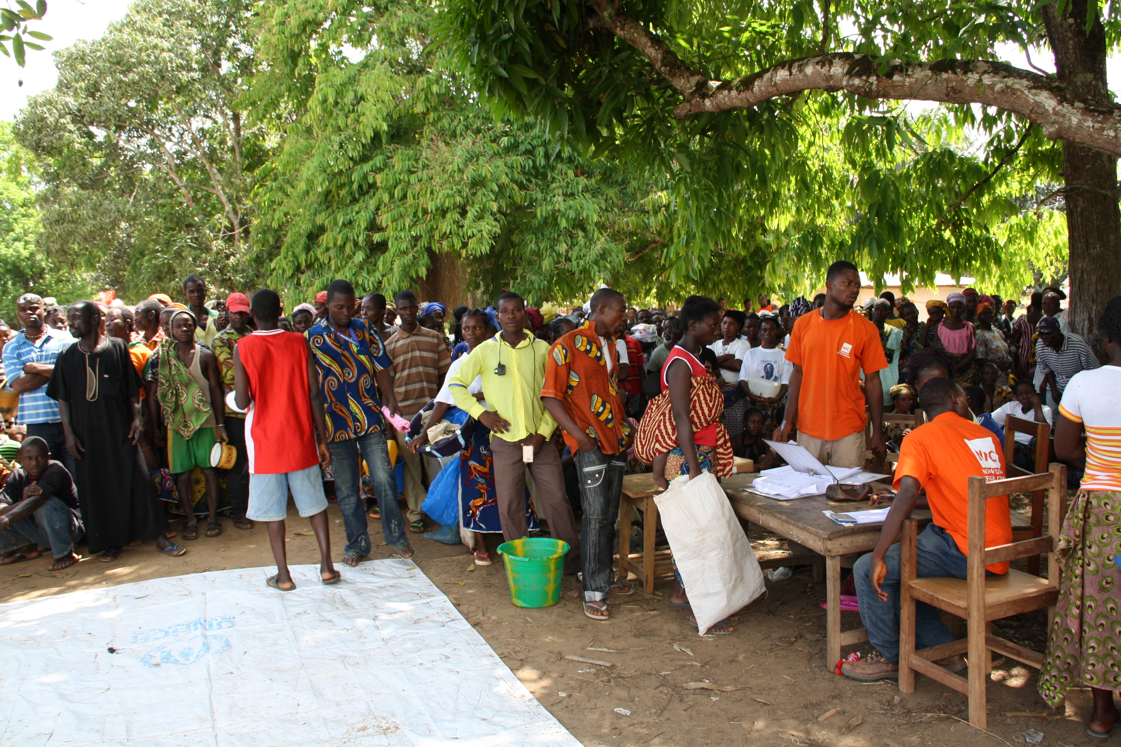 Displaced Ivorians queue for food at a UNHCR/Norwegian Refugee Council distribution site in Liberia. The UN is appealing for urgent assistance to help tens of thousands of Ivorian refugees who have crossed the border into Liberia as a result of fierce fighting in Ivory Coast. To find out how the UK is helping respond to this crisis, please visit: Picture: Department for International Development/Derek Markwell Terms of use This image is posted under a Creative Commons - Attribution Licence, in accordance with the Open Government Licence. You are free to embed, download or otherwise re-use it, as long as you credit the source as 'Department for International Development'.